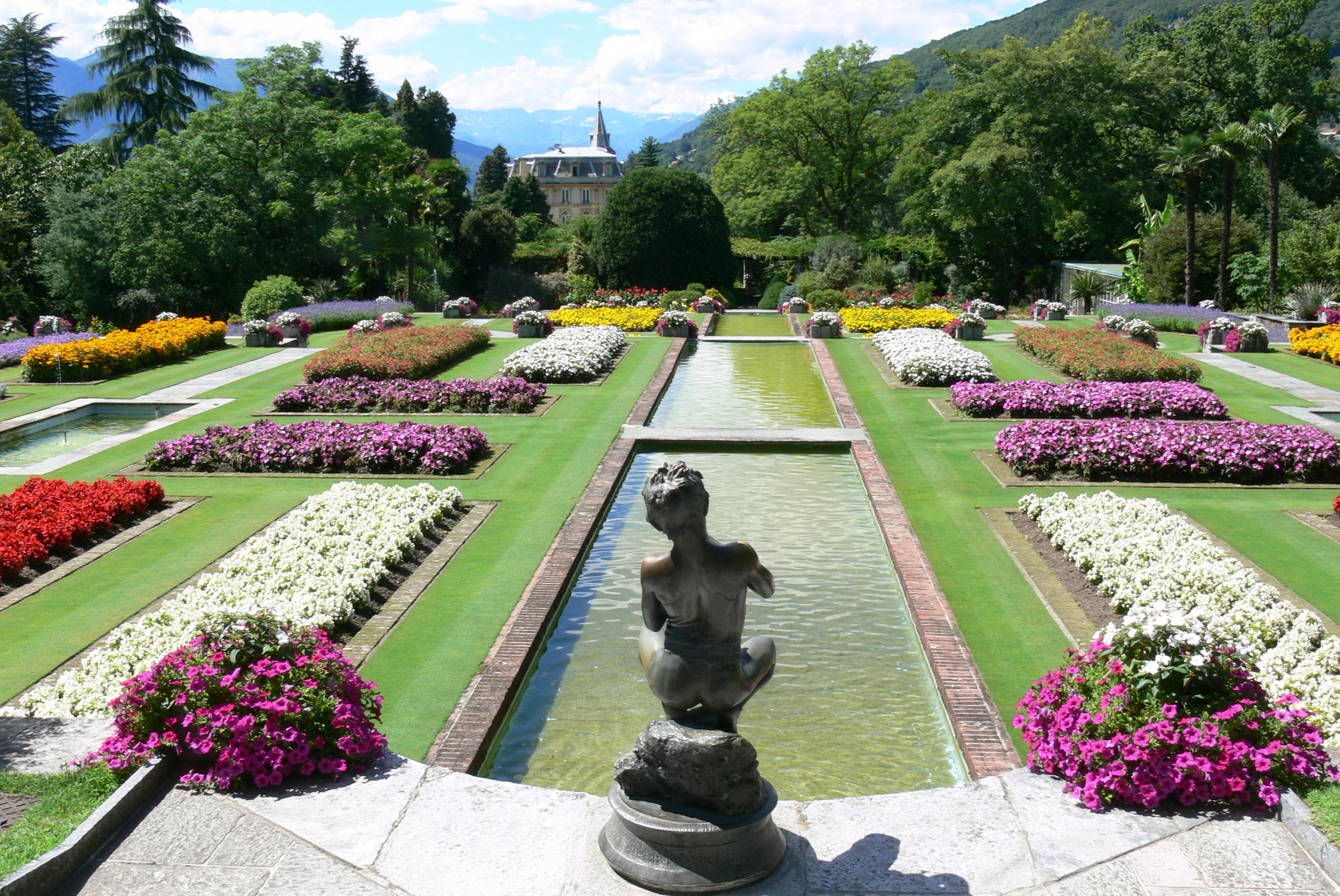 Villa Taranto ( Verbania-Pallanza ). Garden terraces.